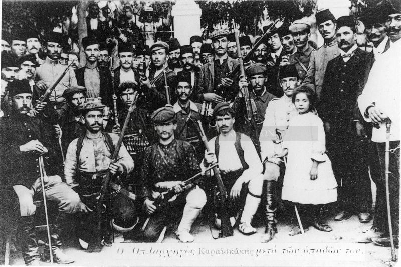 Georgios Karaiskakis (Vogdantsiotis)